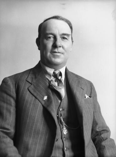 Sir Robert Mafeking Macfarlane, KCMG (17 May 1900–2 December 1982) was a New Zealand politician of the Labour Party. He was a Member of Parliament, served as Speaker of the House of Representatives and was a Mayor of Christchurch.